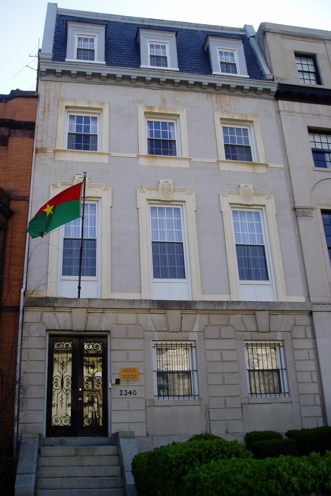 Embassy of Burkina Faso in Washington. Taken by SimonP in April 2005